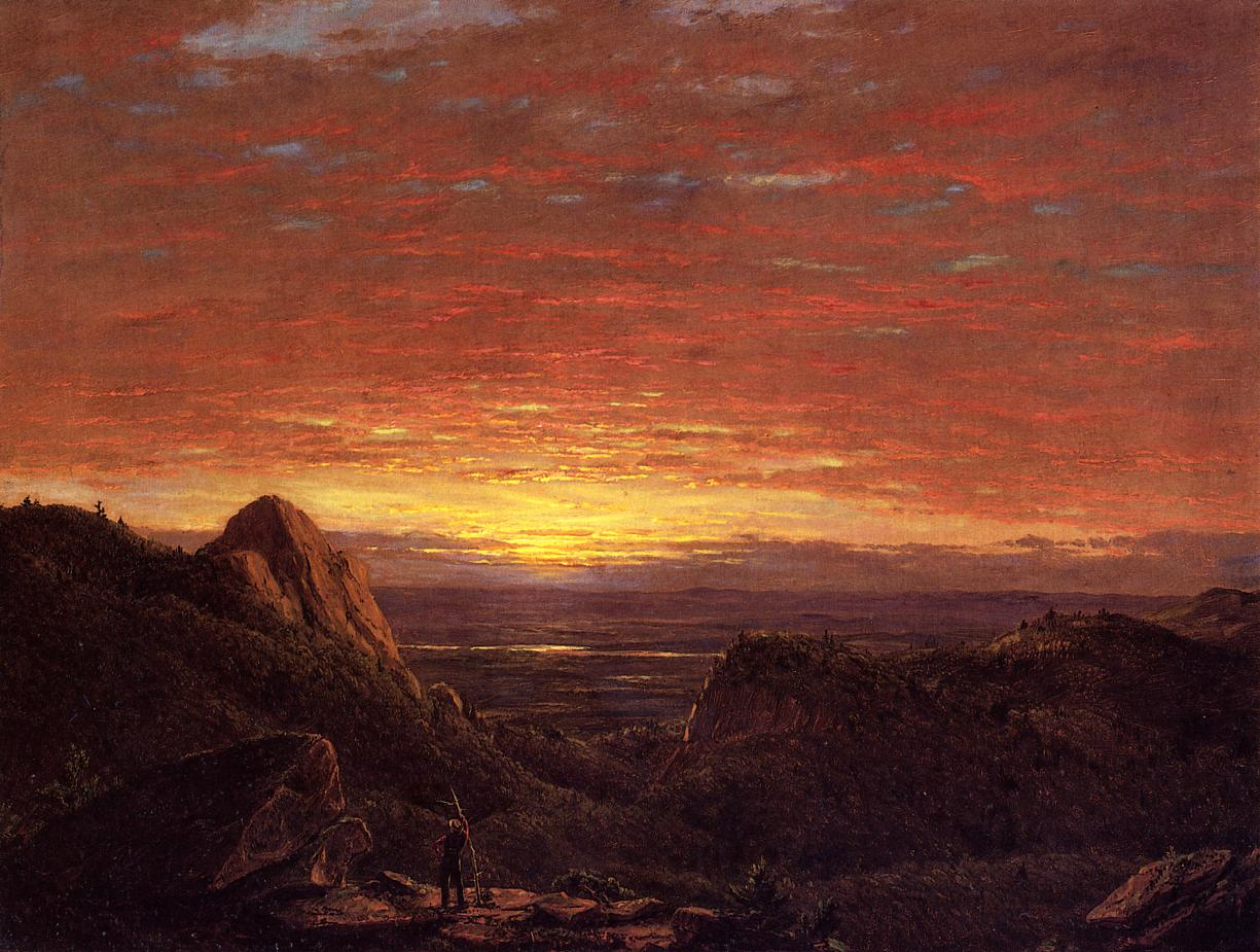 Morning, Looking East over the Hudson Valley from Catskill Mountains — by Frederic Edwin Church. Oil on canvas, 1848 60.96 x 45.72 cm, (24" x 18") Albany Institute of History and Art (Albany, New York, United States)